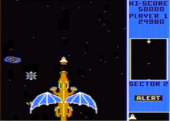 During game play.